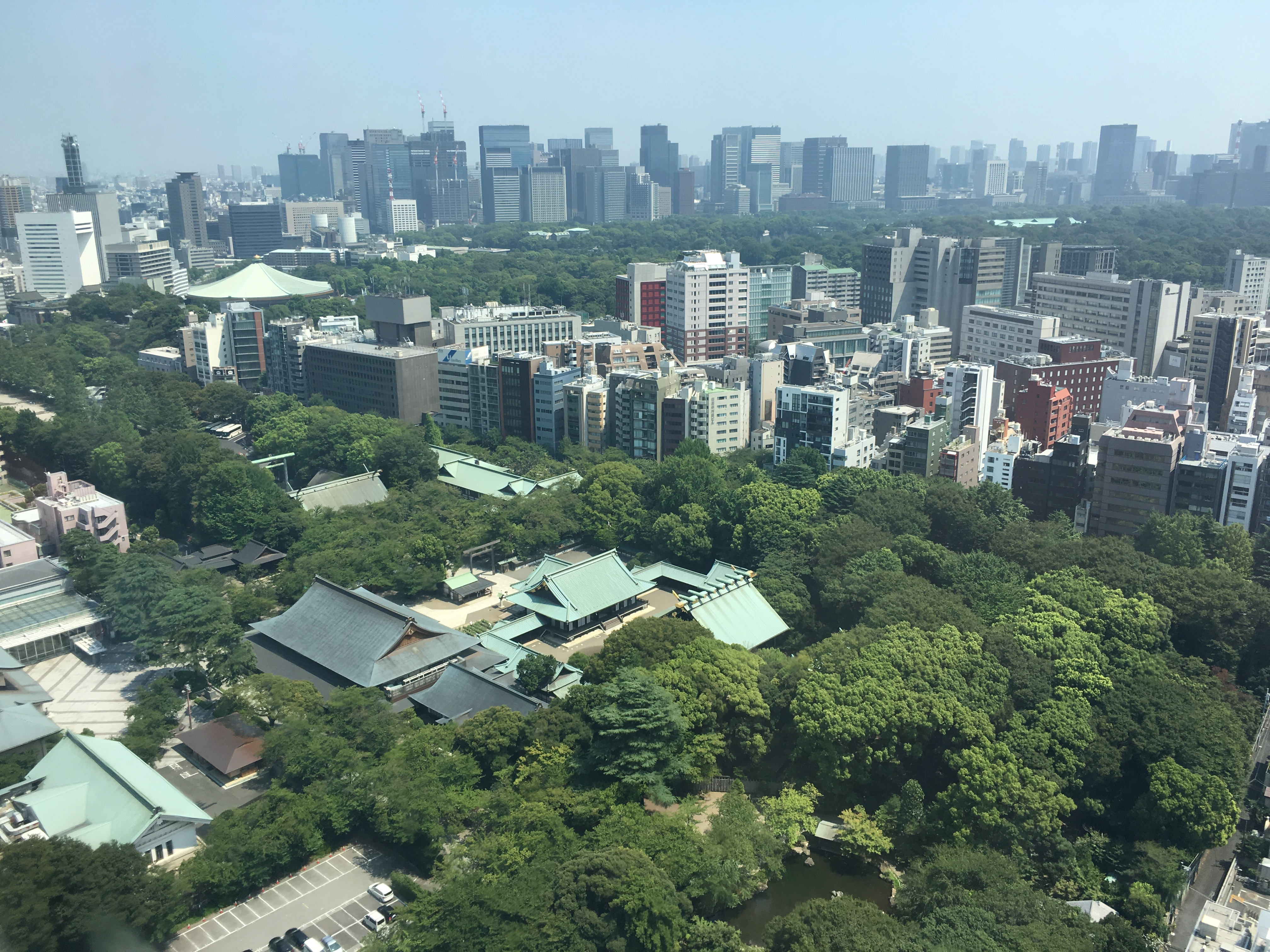 The view of Yasukuni Shrine from Boissonade Tower 26F, Hosei University Ichigaya Campus.